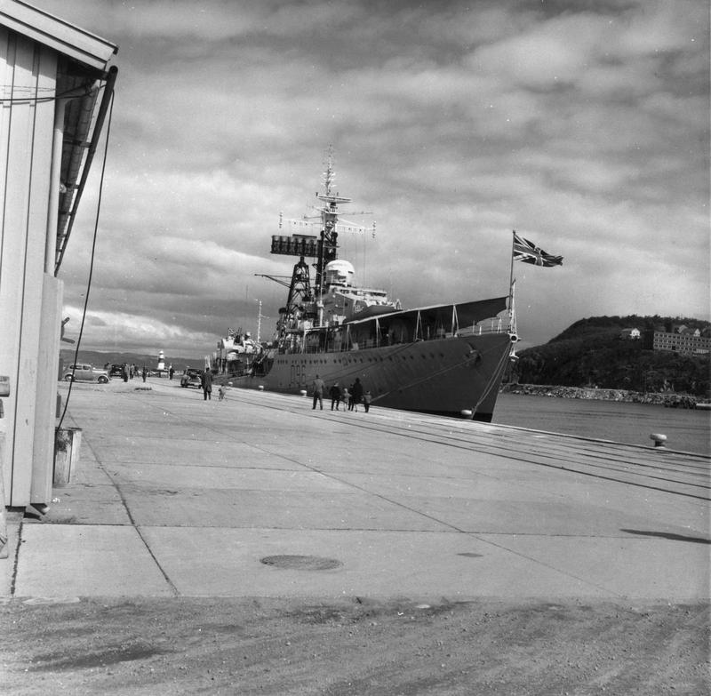 Weapon-class destroyer HMS Crossbow (D96) moored at Trondheim. May 1961 (IWM HU 129783)